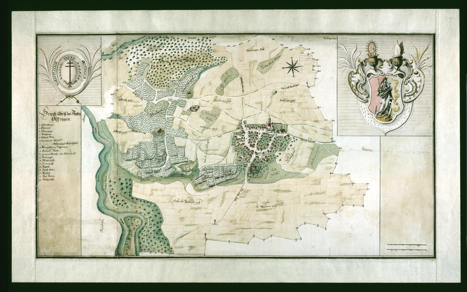 Oeffingen, Coloured Map from 1775